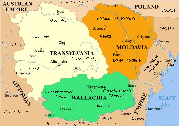 Romania's territory, map showing the period 1673-1713